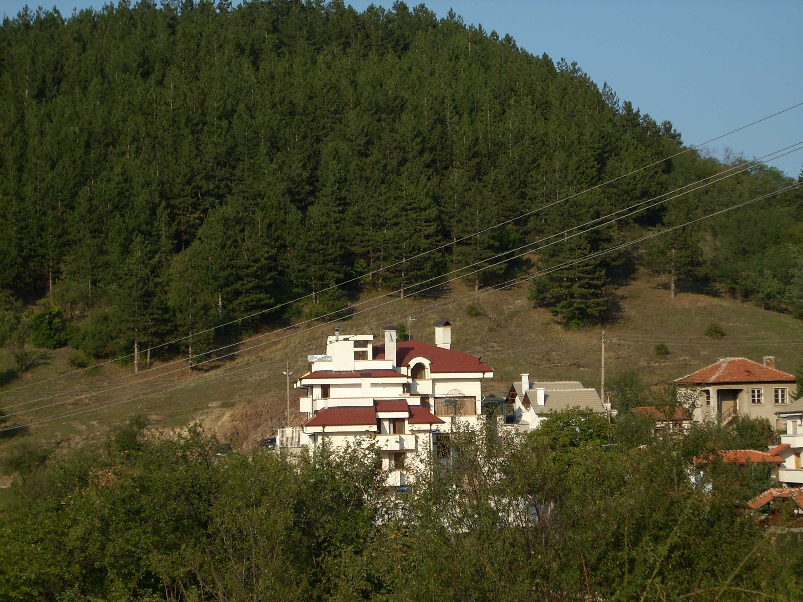 Hotel "Aleksievata Kushta" (Aleksi's House), Gurgulyat, Bulgaria